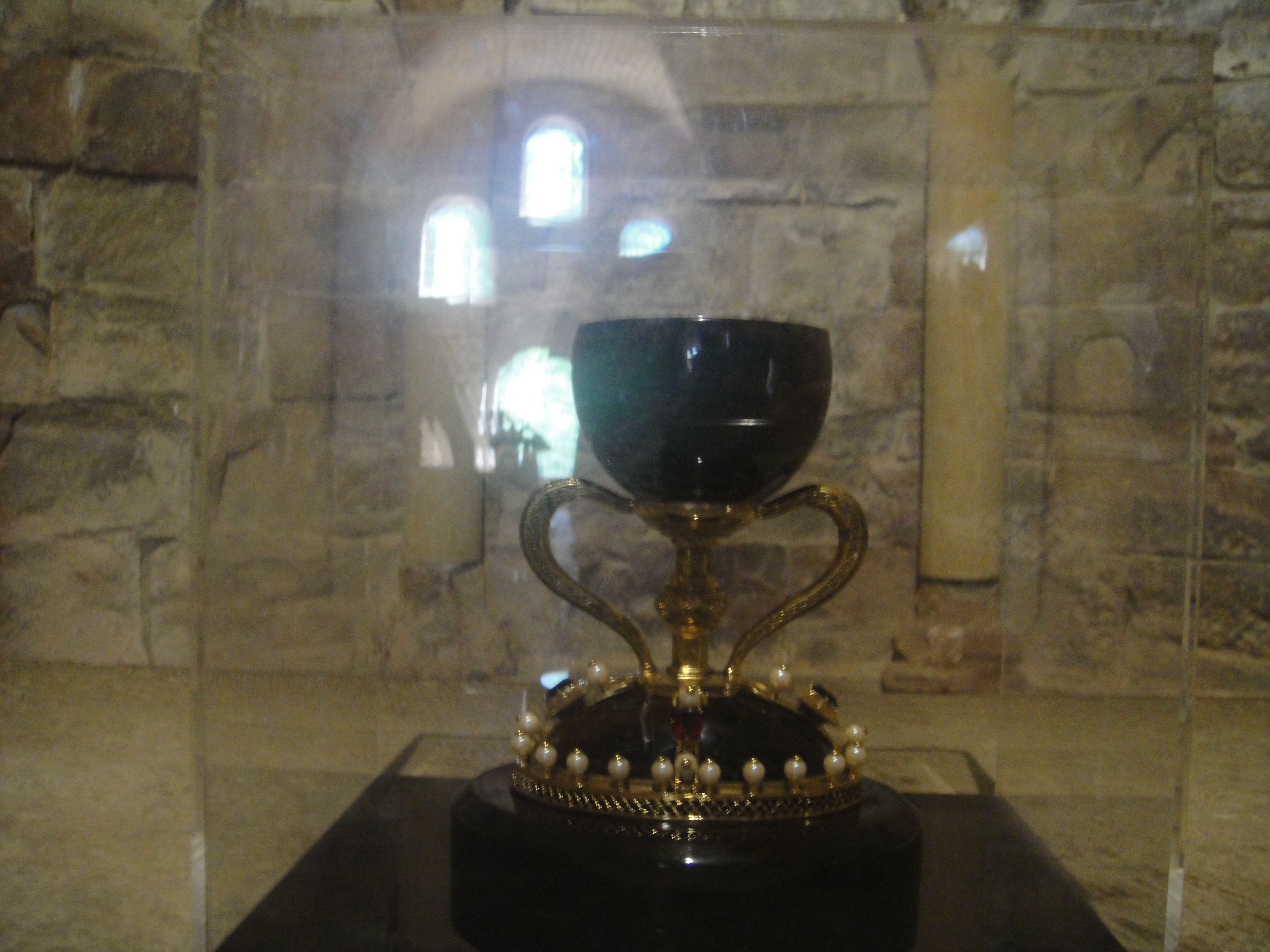 Monastery of San Juan de la Peña, in Aragón. (Spain).